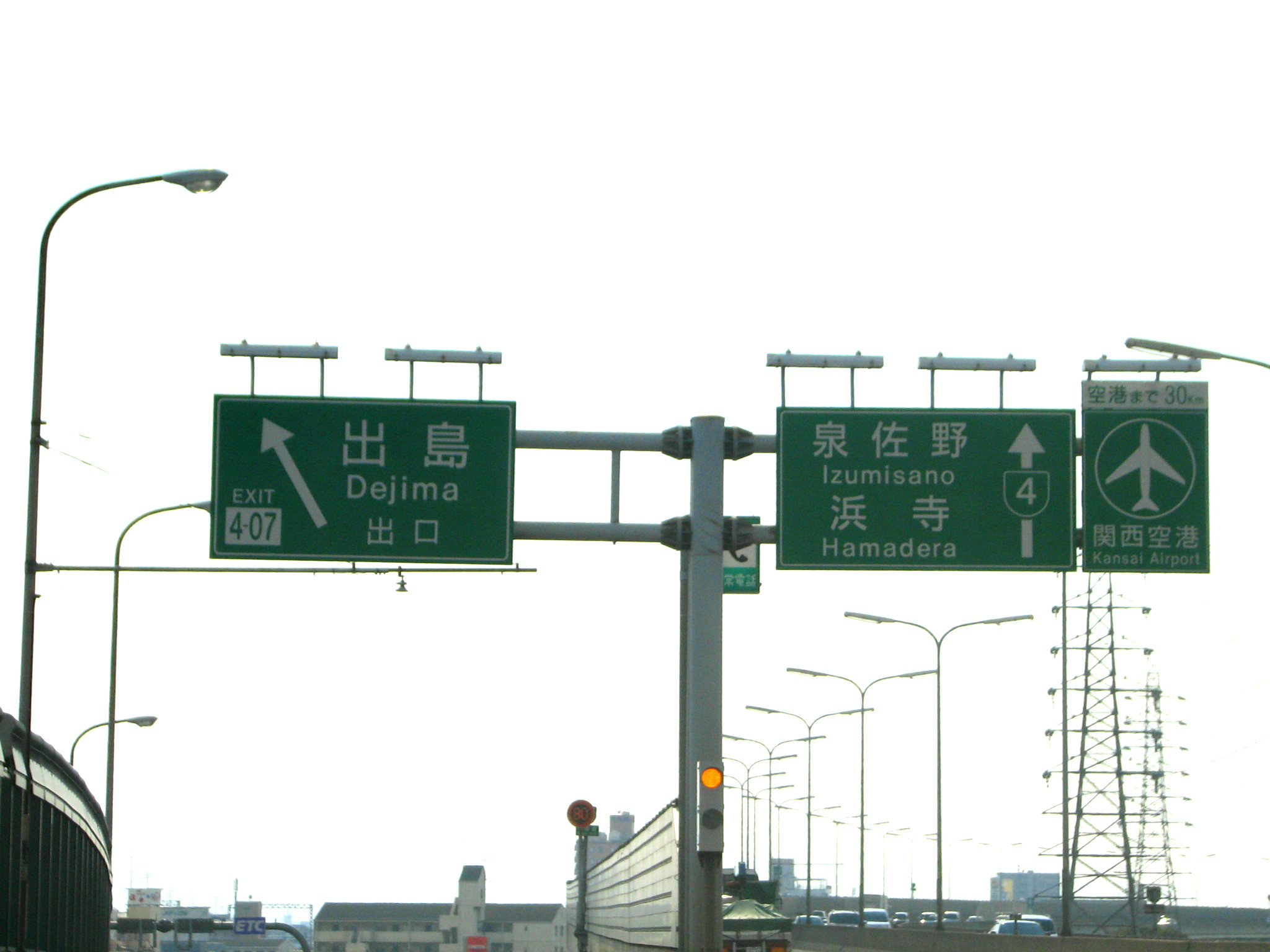 Hanshin Expressway Dejima IC